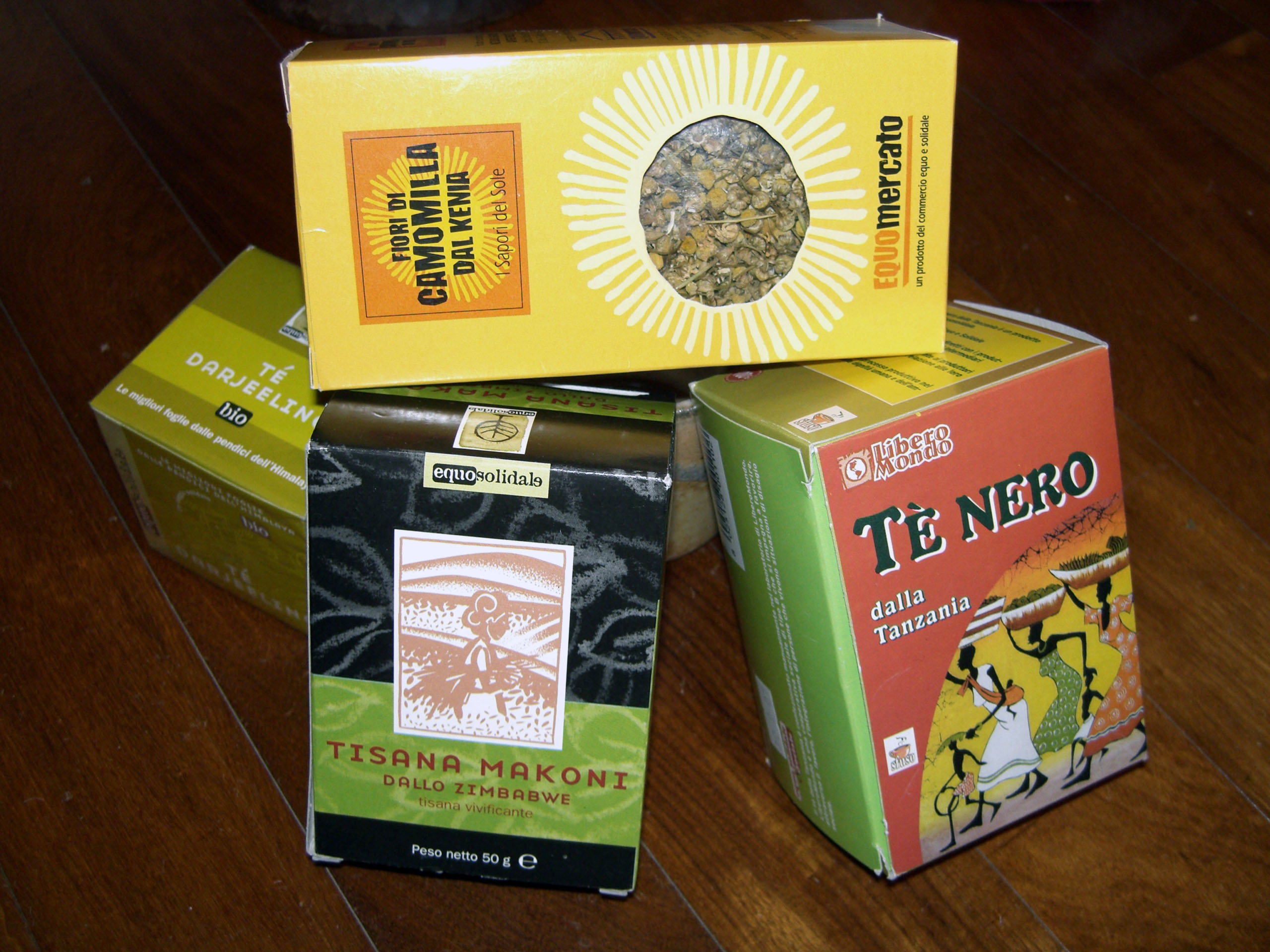 Fair trade tea purchased in Italy.